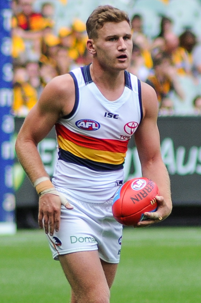 Rory Laird during the AFL round two match between Hawthorn and Adelaide on 1 April 2017 at the Melbourne Cricket Ground in Melbourne, Victoria.